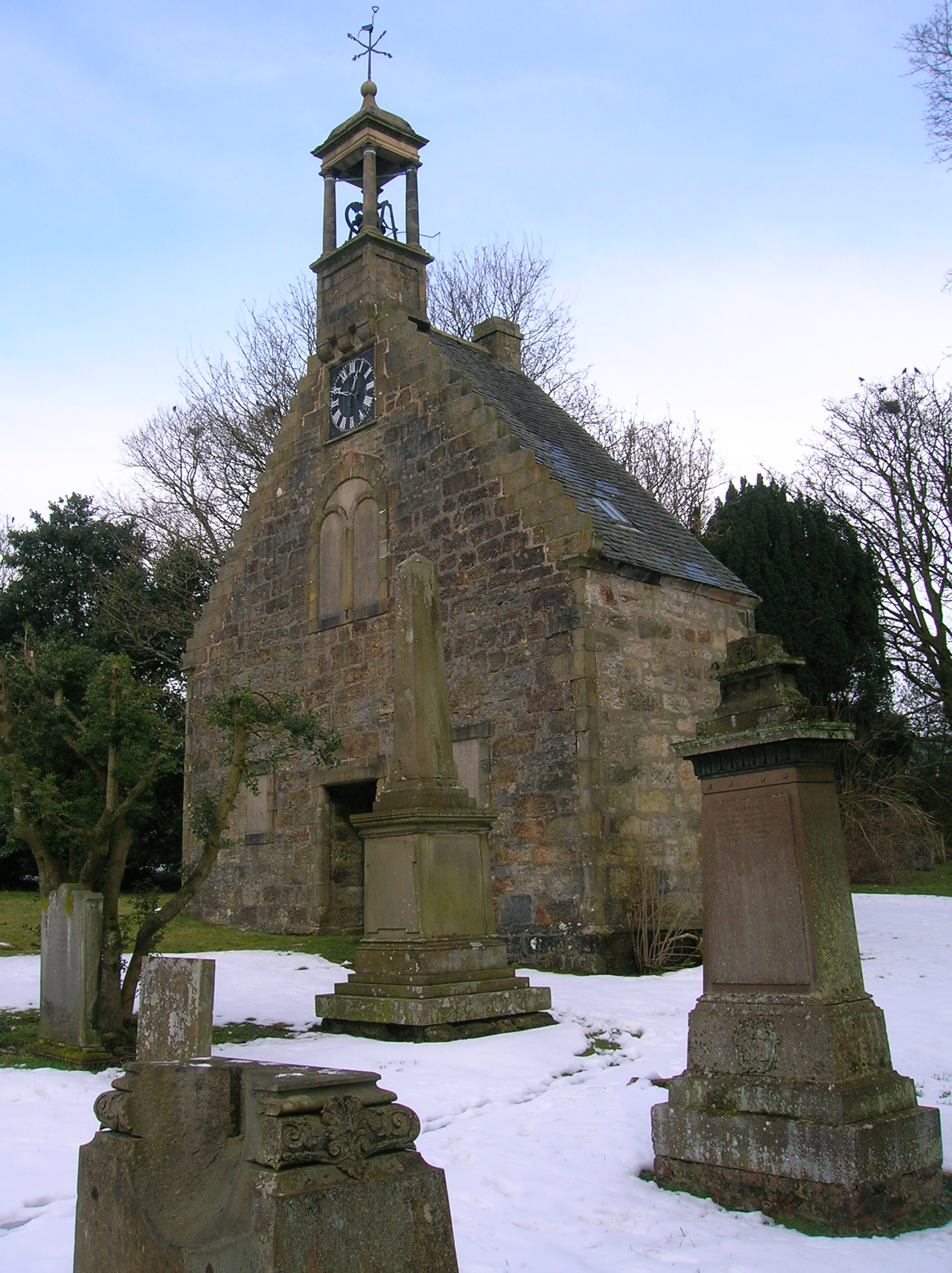 Saint John's Kirk, Lochwinnoch, Inverclyde, Scotland. Old kirk dating from 1729.